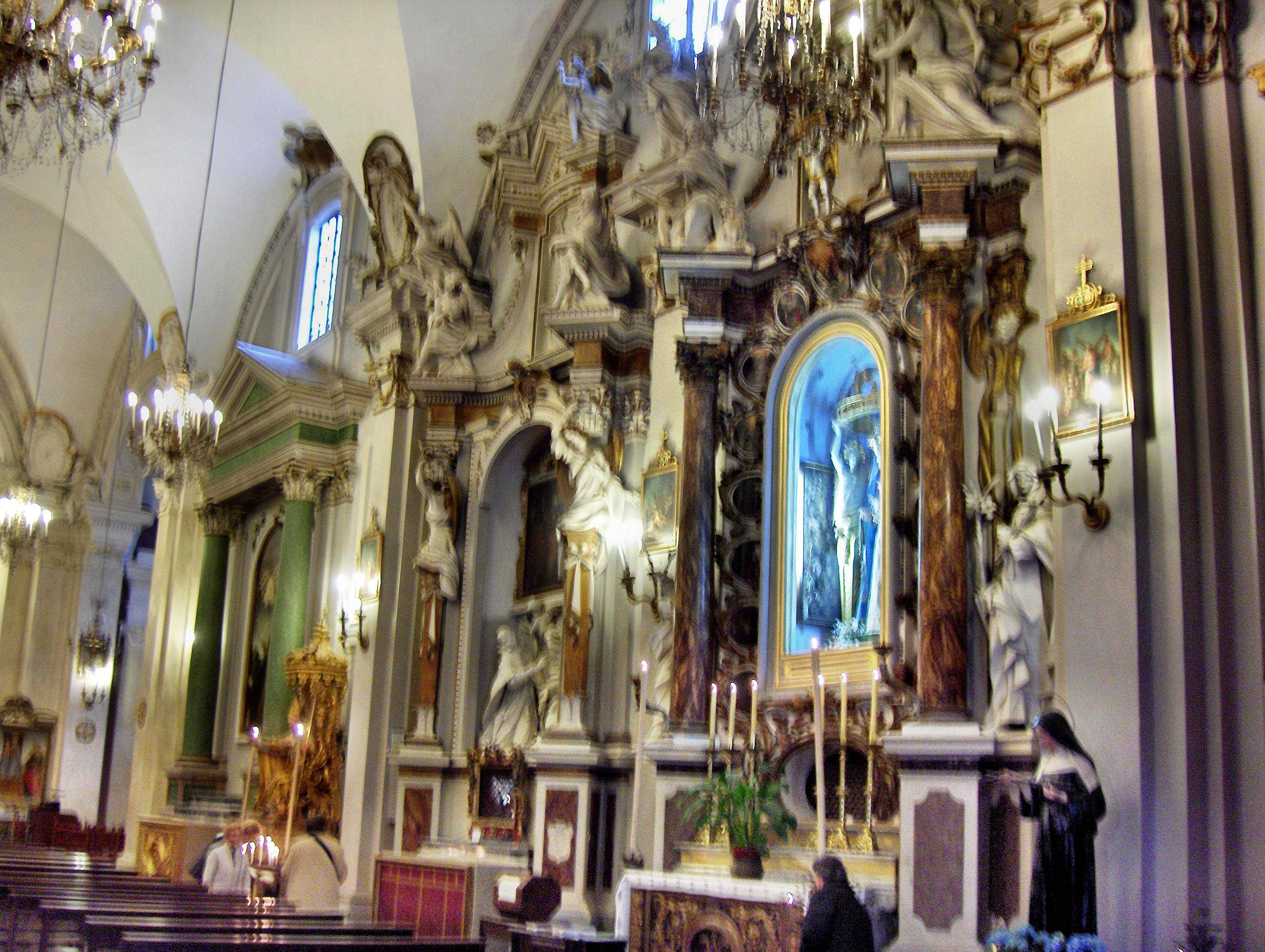 Side altar in the church of Santa Maria Maggiore (13th-17th century), Spello, Italy. T